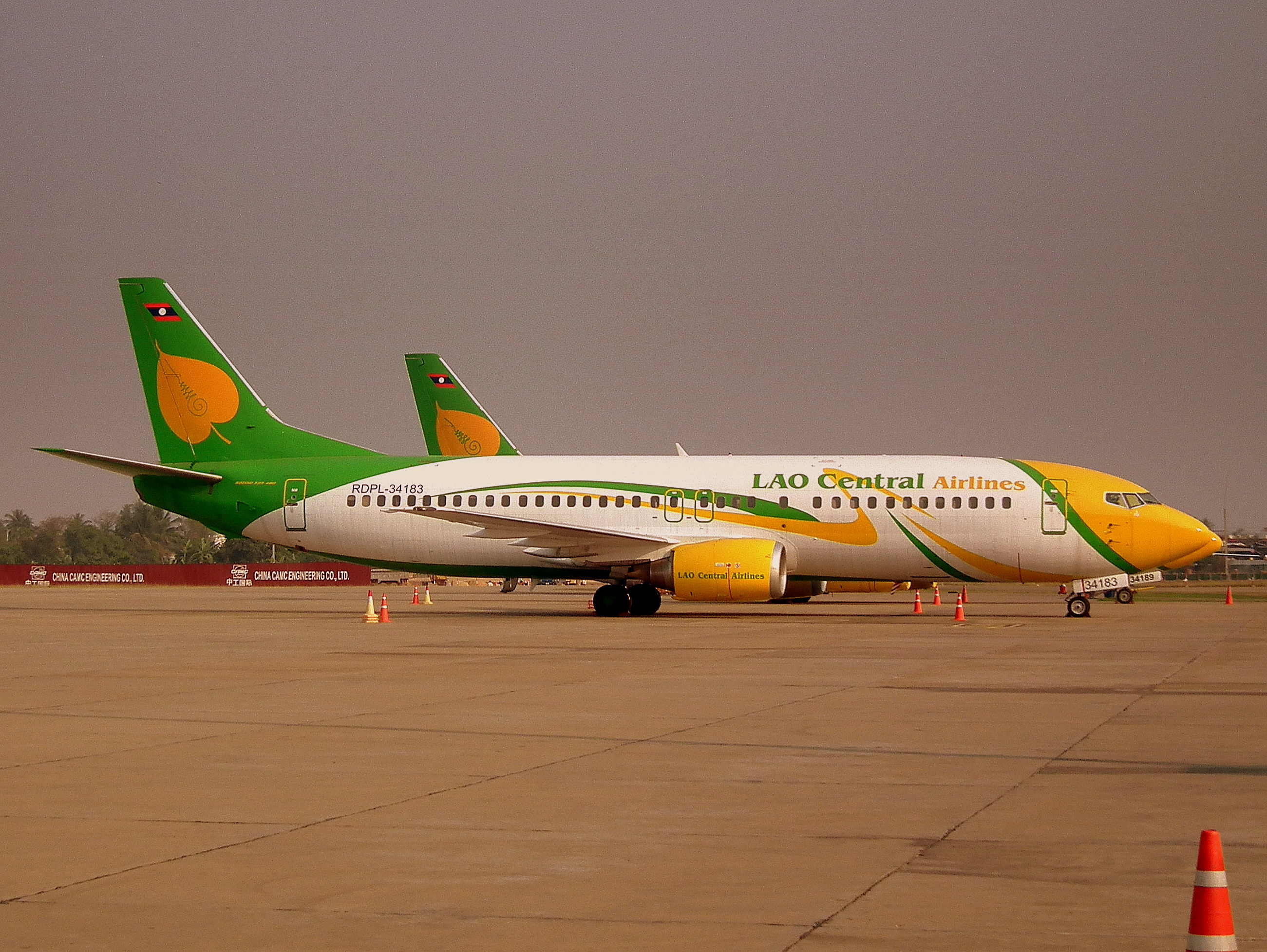 LAO CENTRAL AIRLINES BOEING 737-400,s AT VIENTIANE WATTAY AIRPORT LAOS FEB 2012